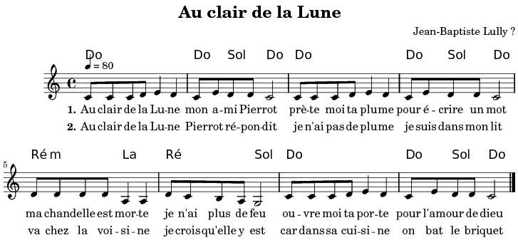 Au clair de la Lune (XVIIIth century, maybe from Jean-Baptiste Lully): two first verses, melody and chords in french notation